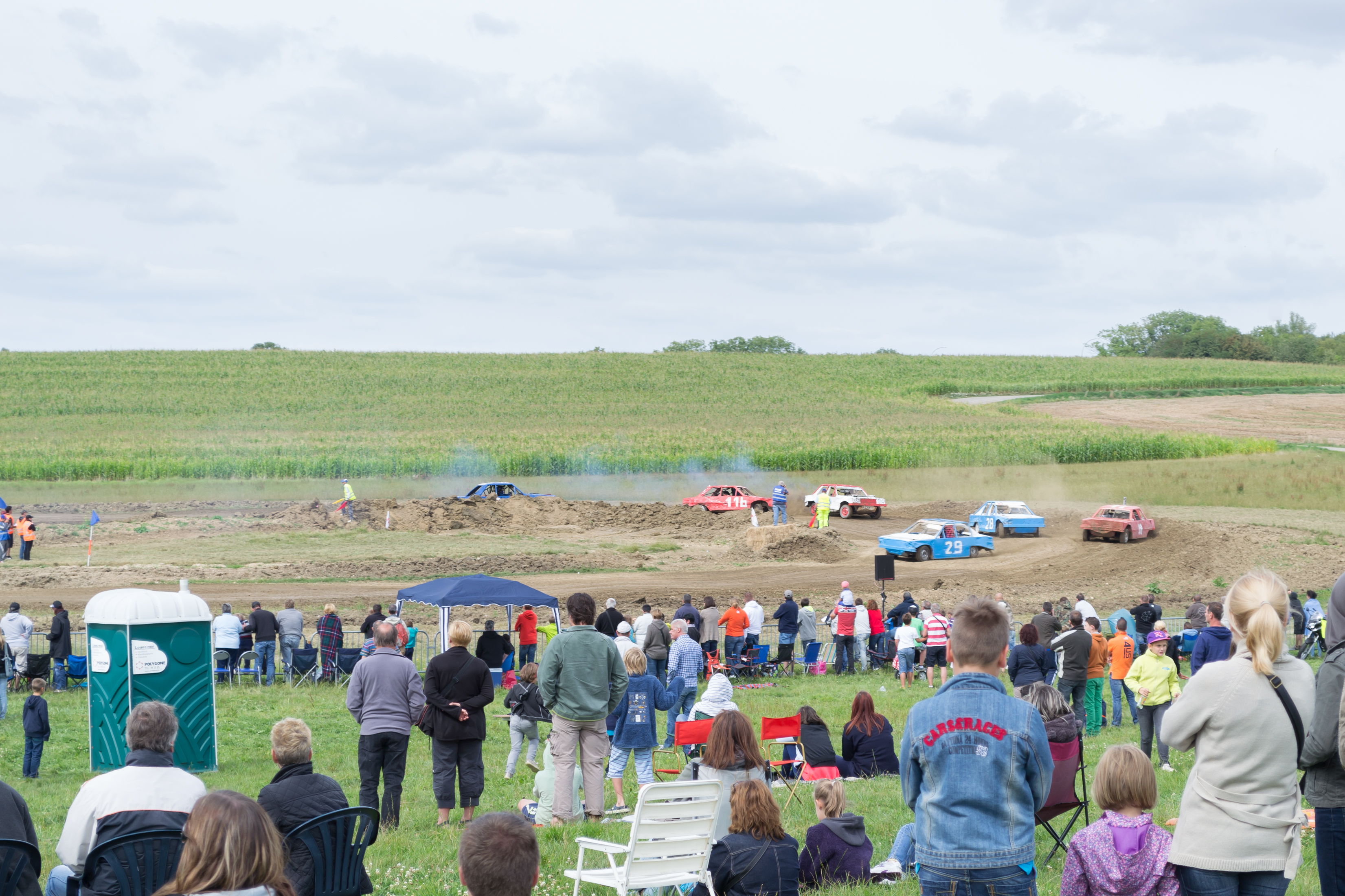 Stock car race in Alzingen, Luxembourg